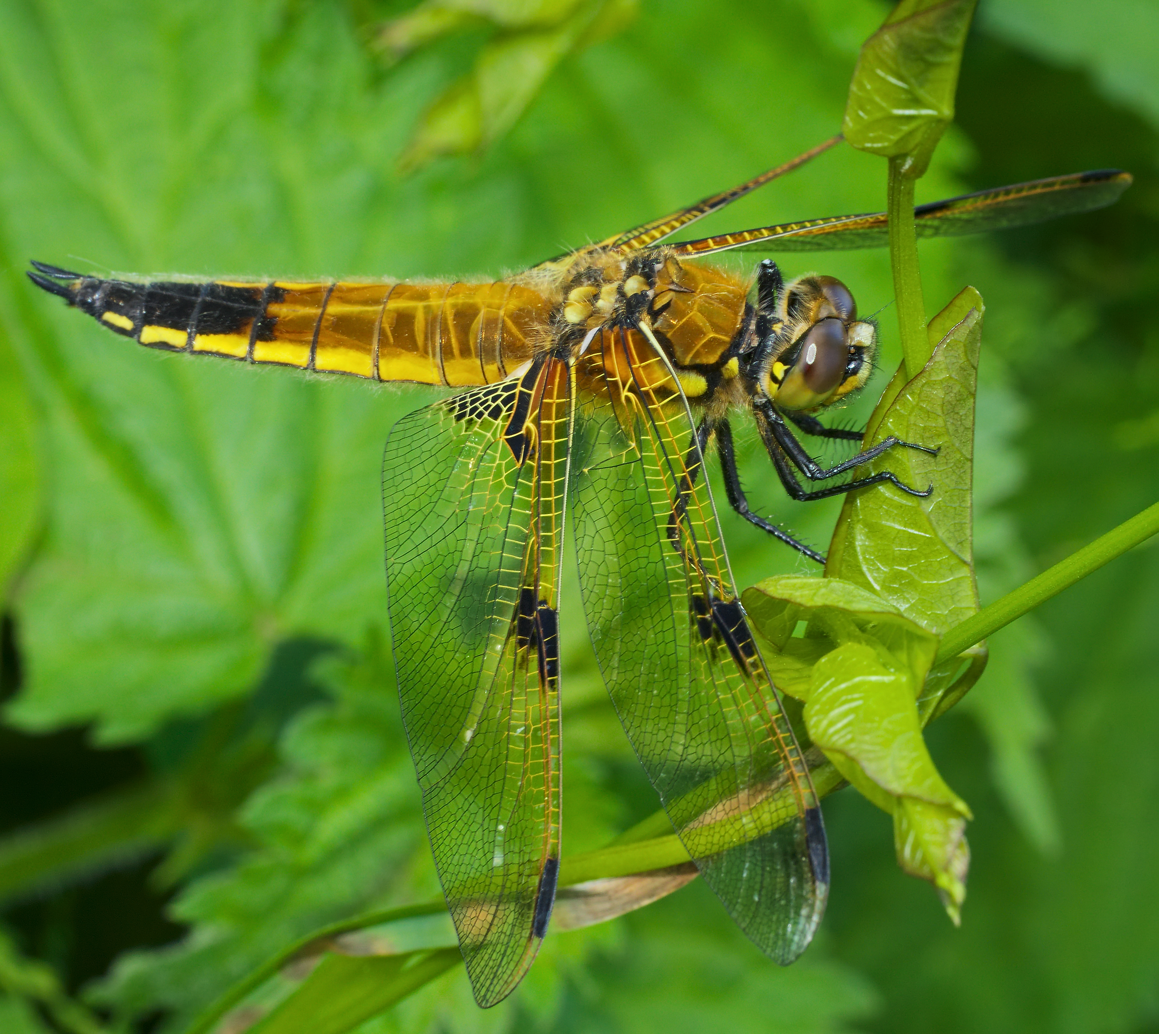 Four-spotted chaser - Libellula quadrimaculata, female. Taken in Mannheim, Kirschgartshäuser Schläge by the Bruchgraben, Baden-Württemberg, Germany.